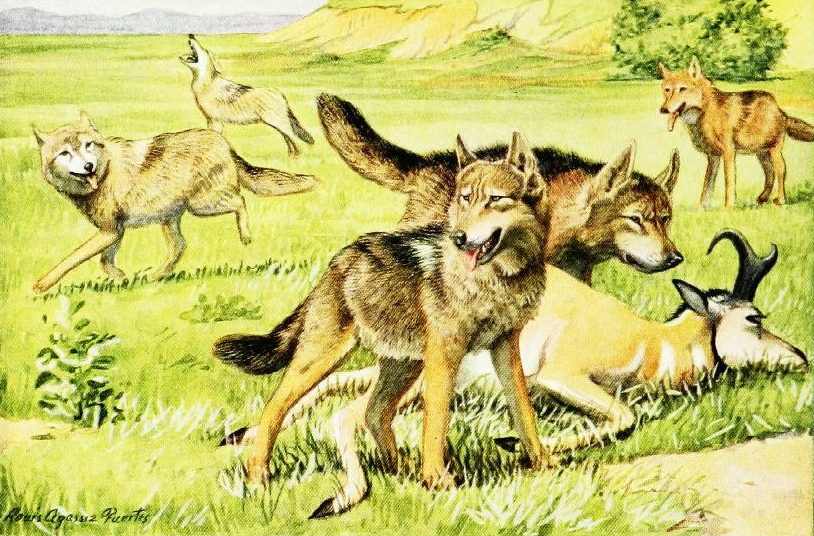 Illustration of timber wolves confronting coyotes over a pronghorn carcass by Louis Agassiz Fuertes